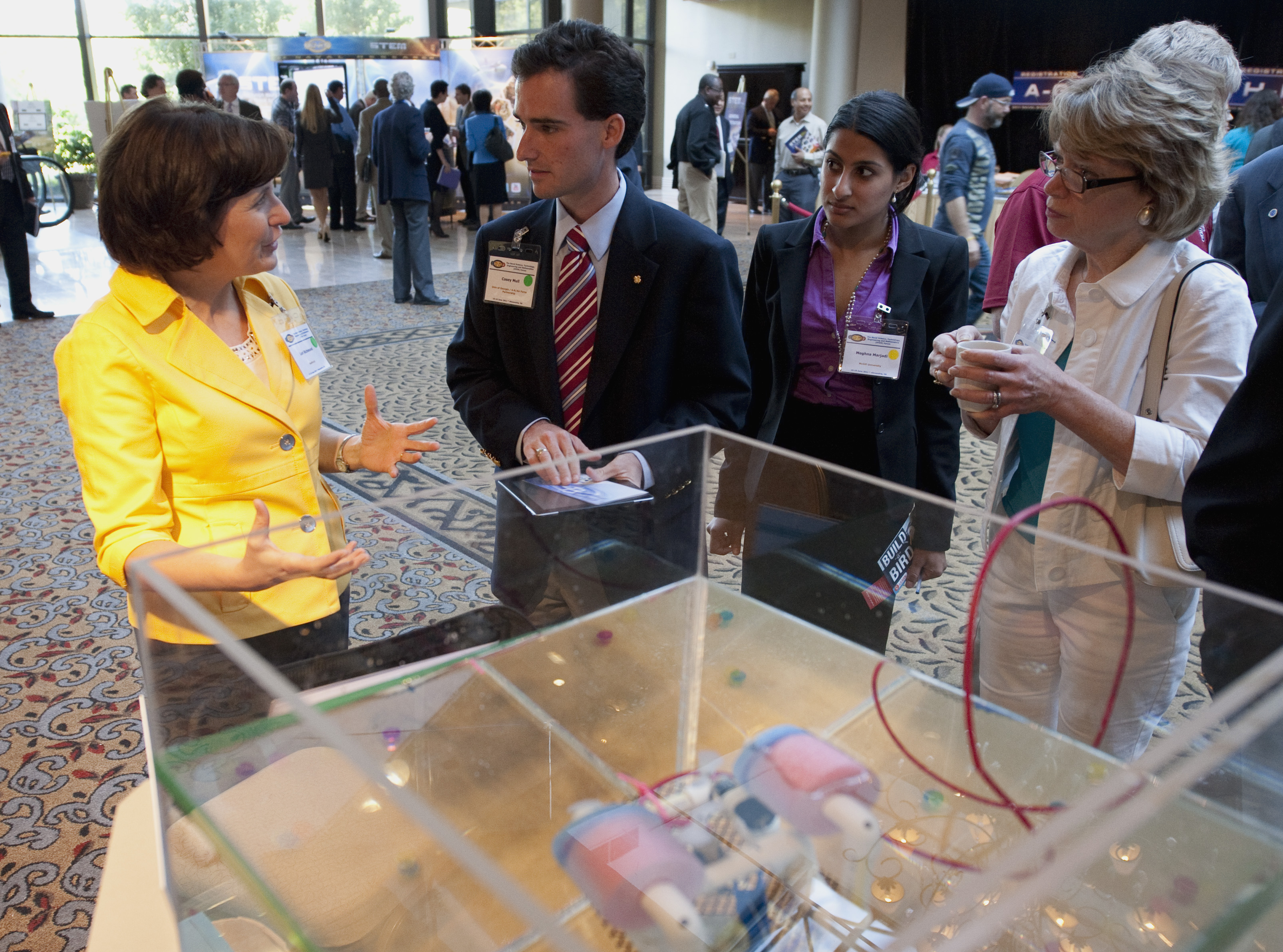 ALEXANDRIA, Va. (June 15, 2011) Lori Richmond, left, national education director for SeaPerch, talks to attendees at the Office of Naval Research-hosted Naval Science, Technology, Engineering and Mathematics (STEM) Forum. SeaPerch provides students with the opportunity to learn about robotics, engineering, science, and mathematics while building an underwater remotely operated vehicle as part of a science and engineering curriculum. (U.S. Navy photo by John F. Williams/Released)